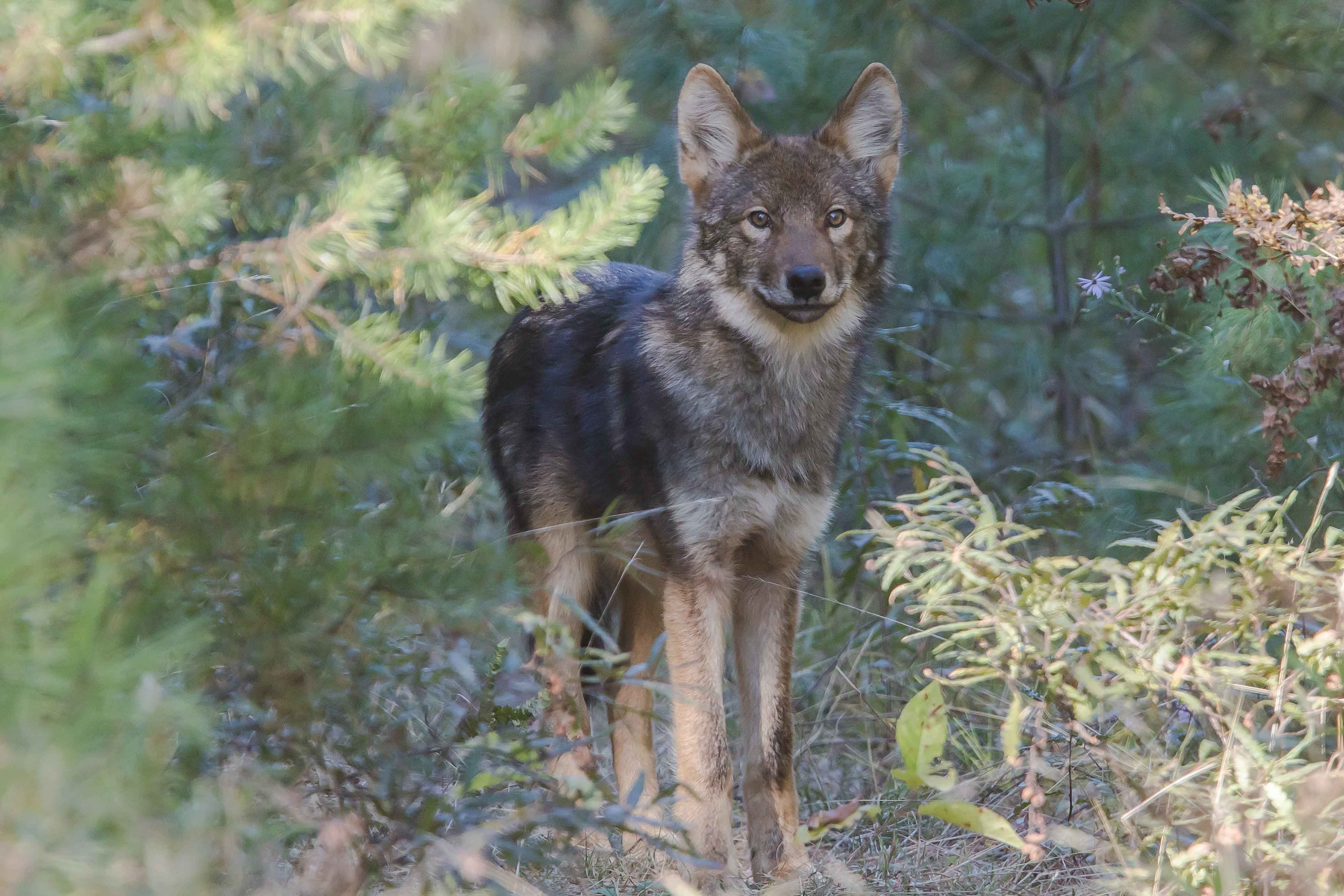 Eastern wolf, Algonquin Provincial Park